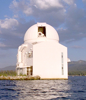 ©Big Bear Solar Observatory. Used for article with permission.